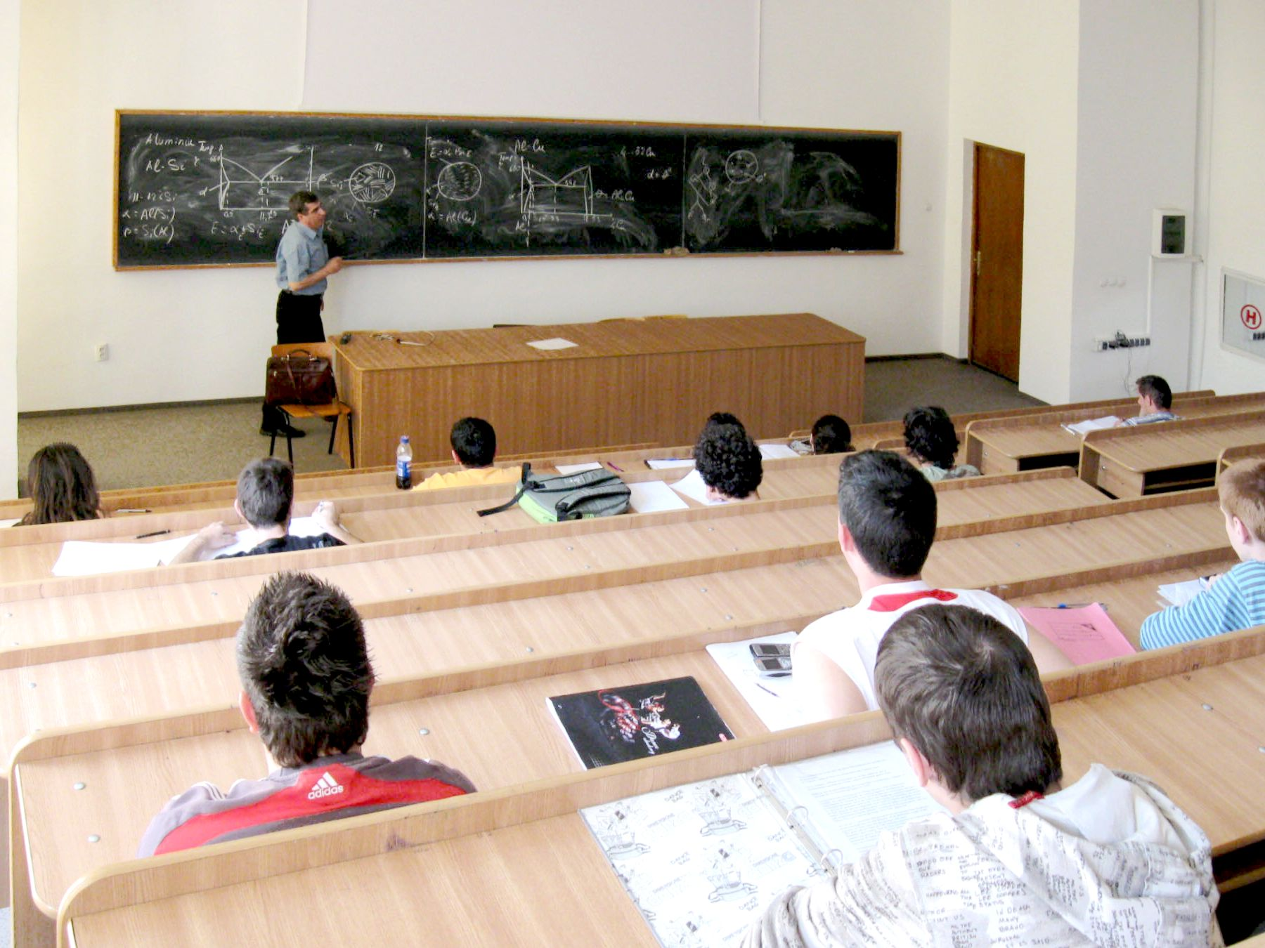 The amphitheater "Gheorghe Silaş" of the Faculty of Mechanical Engineering from Timisoara.